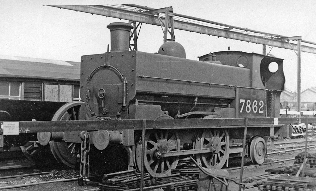 Crewe Works shunting engine. Ancient ex-London & North Western 'Bissel Truck' 0-4-2T No. 7862 was one of the team of old-stagers used around Crewe Works - seen in 1948.